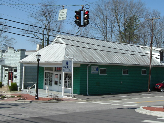 Bybee Pottery in Middletown LOUKY